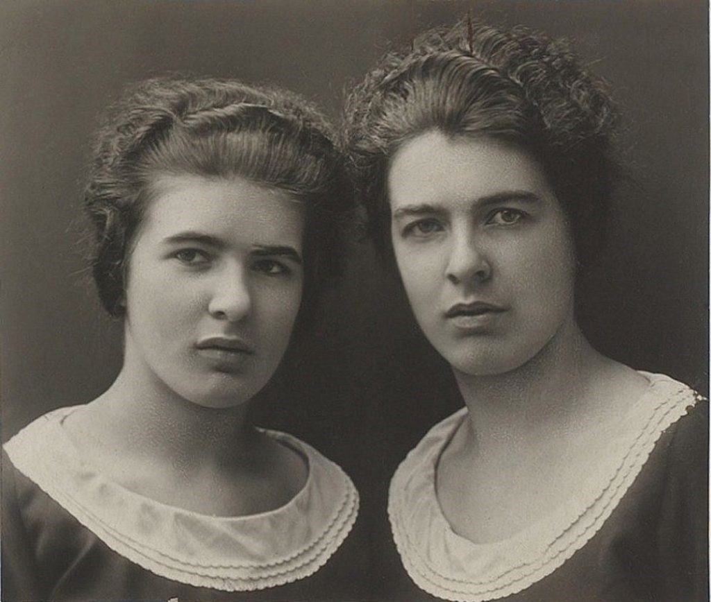 Papin sisters portrait